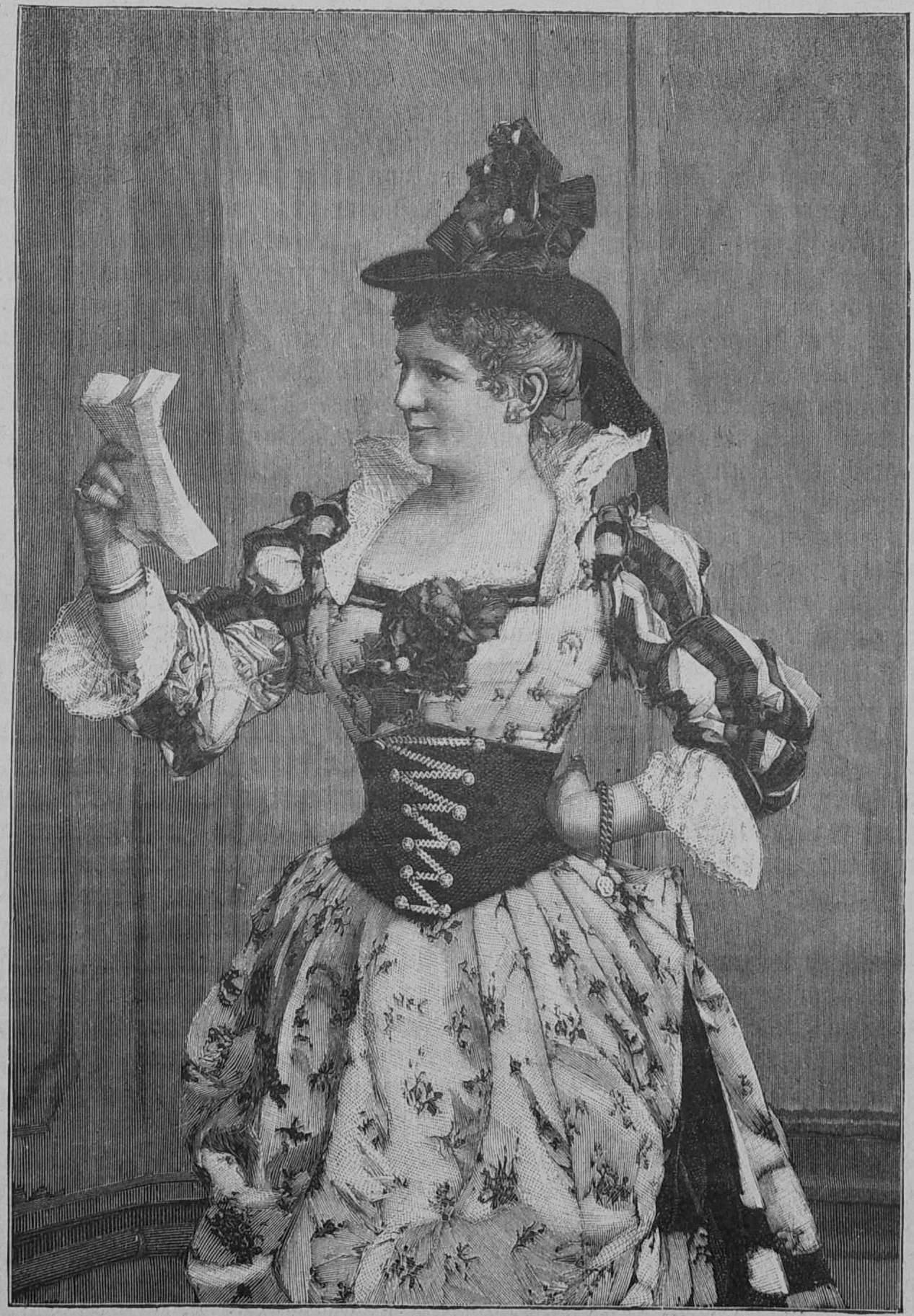 Page 390 from journal Die Gartenlaube for 1891.Extracted image (if any): File:Die Gartenlaube (1891) b 390.jpg - hi res, ~2.5 MB.